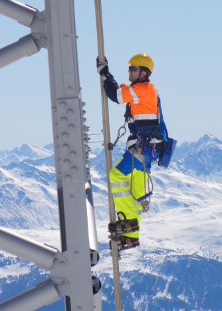 This picture shows a user climbing up a lattice mast with the manual climbing system HighStep.